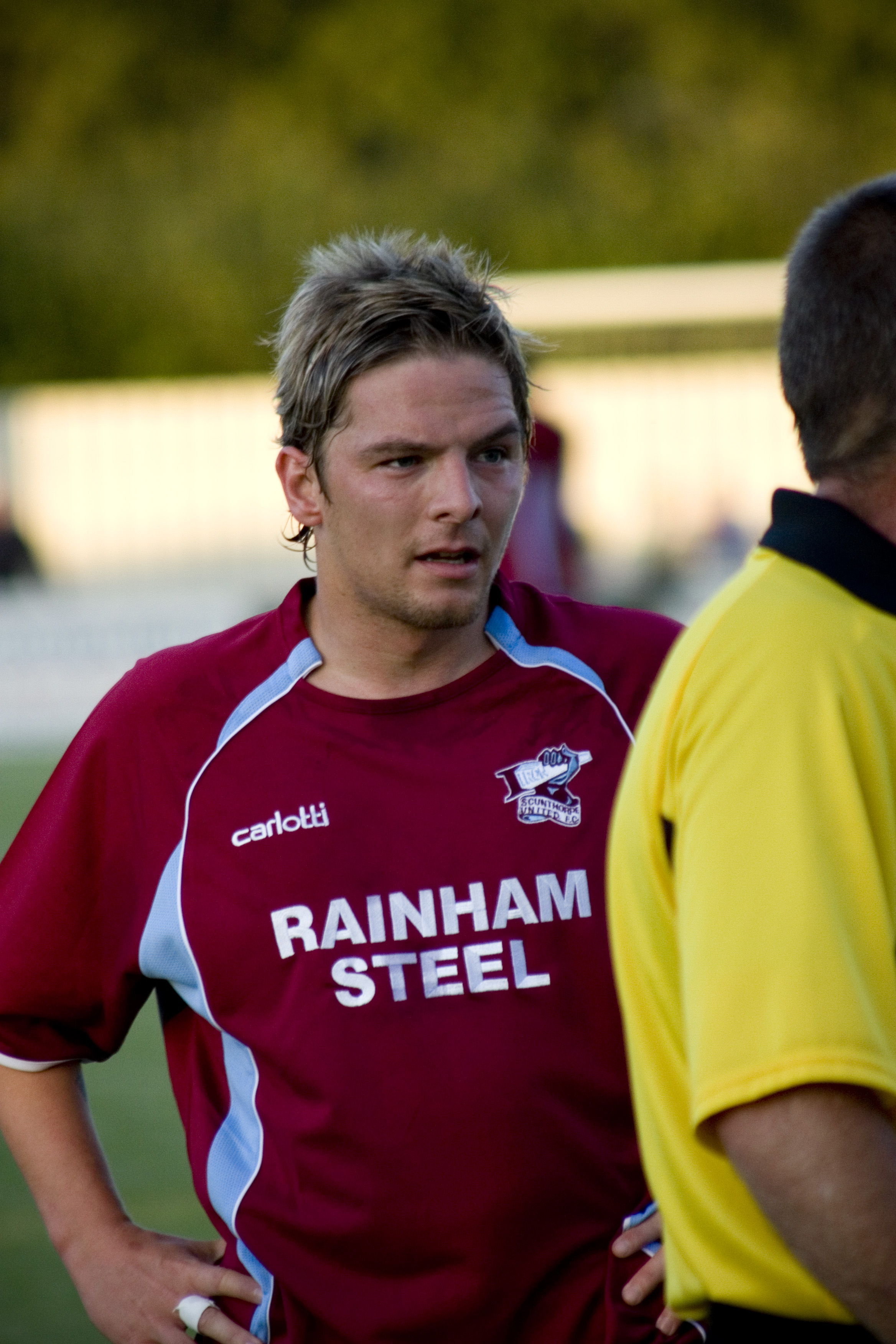 Dave Mulligan, New Zealand international footballer: I took this photo myself on 17/07/2007, and I release it into the public domain. It is in breach of no copyright laws, nor wikipedia policy.